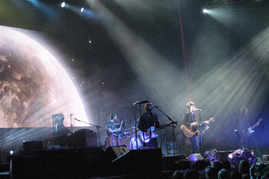 An photograph of Australian rock band Powderfinger performing "These Days" at a 2007 tour, at Sydney's ACER arena, on September 8 2007.